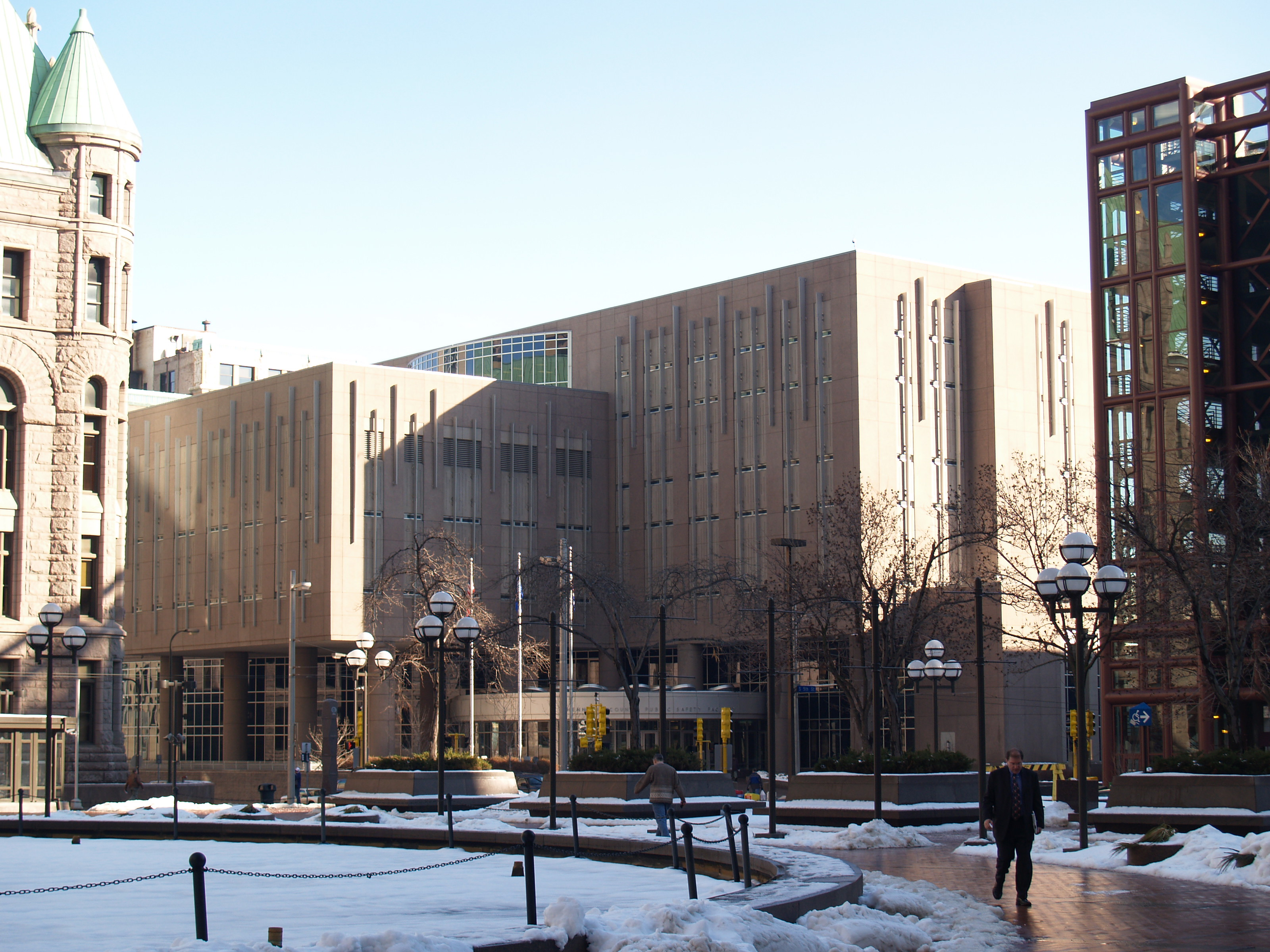 Image taken by Micah of the Hennepin County, Minnesota Public Safety Facility. Photo taken 23 Dec 2005.